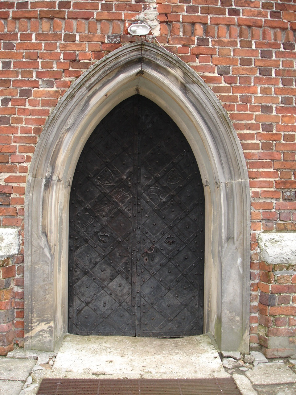 A decorated gothic door from the Church of Saint Margaret in Moskorzew, Świętokrzyskie Voivodeship.